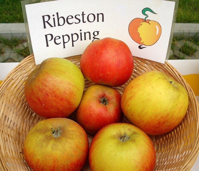 Ribston Pippin apples